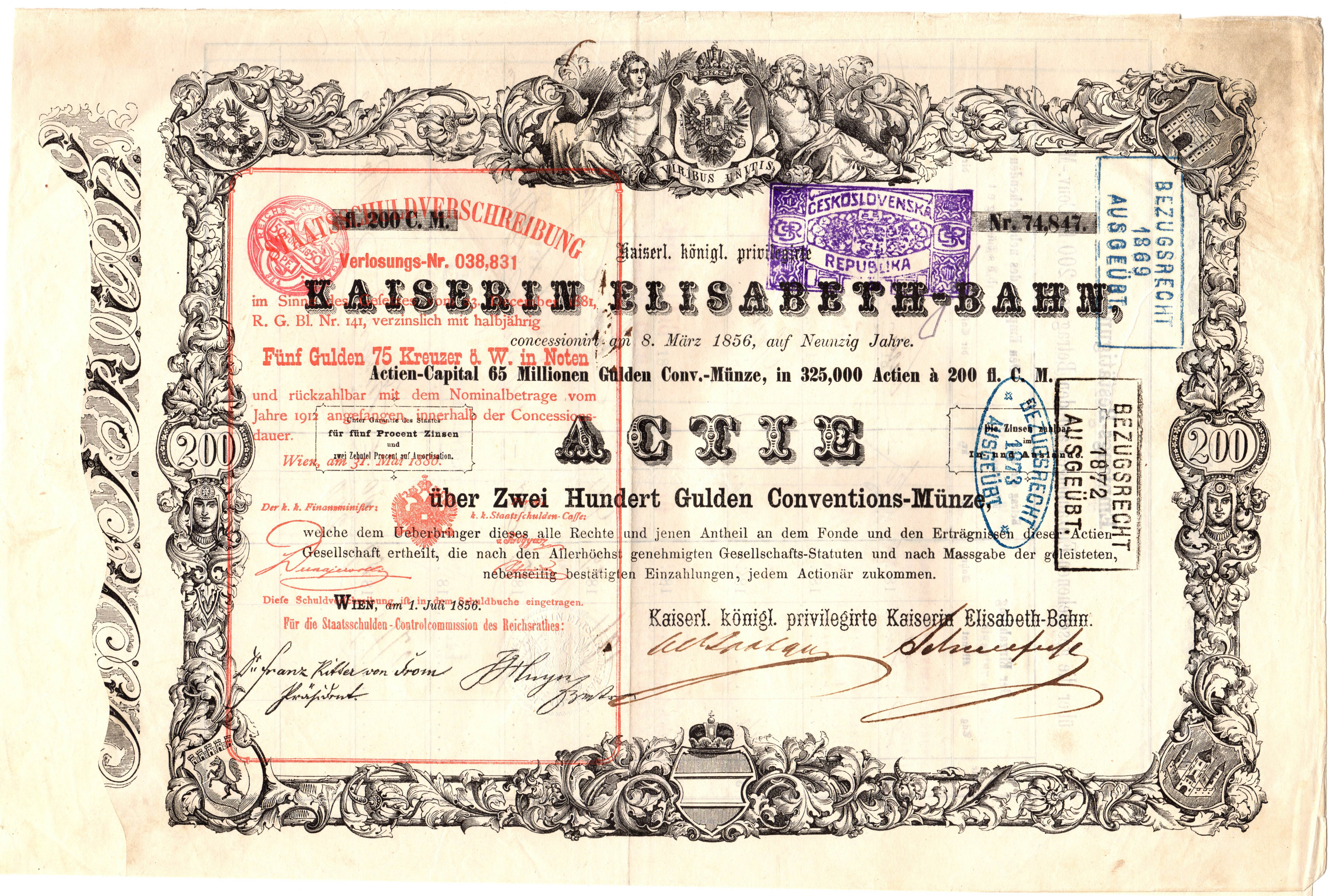 Share of the Kaiserin Elisabeth-Bahn, issued 1st July 1856